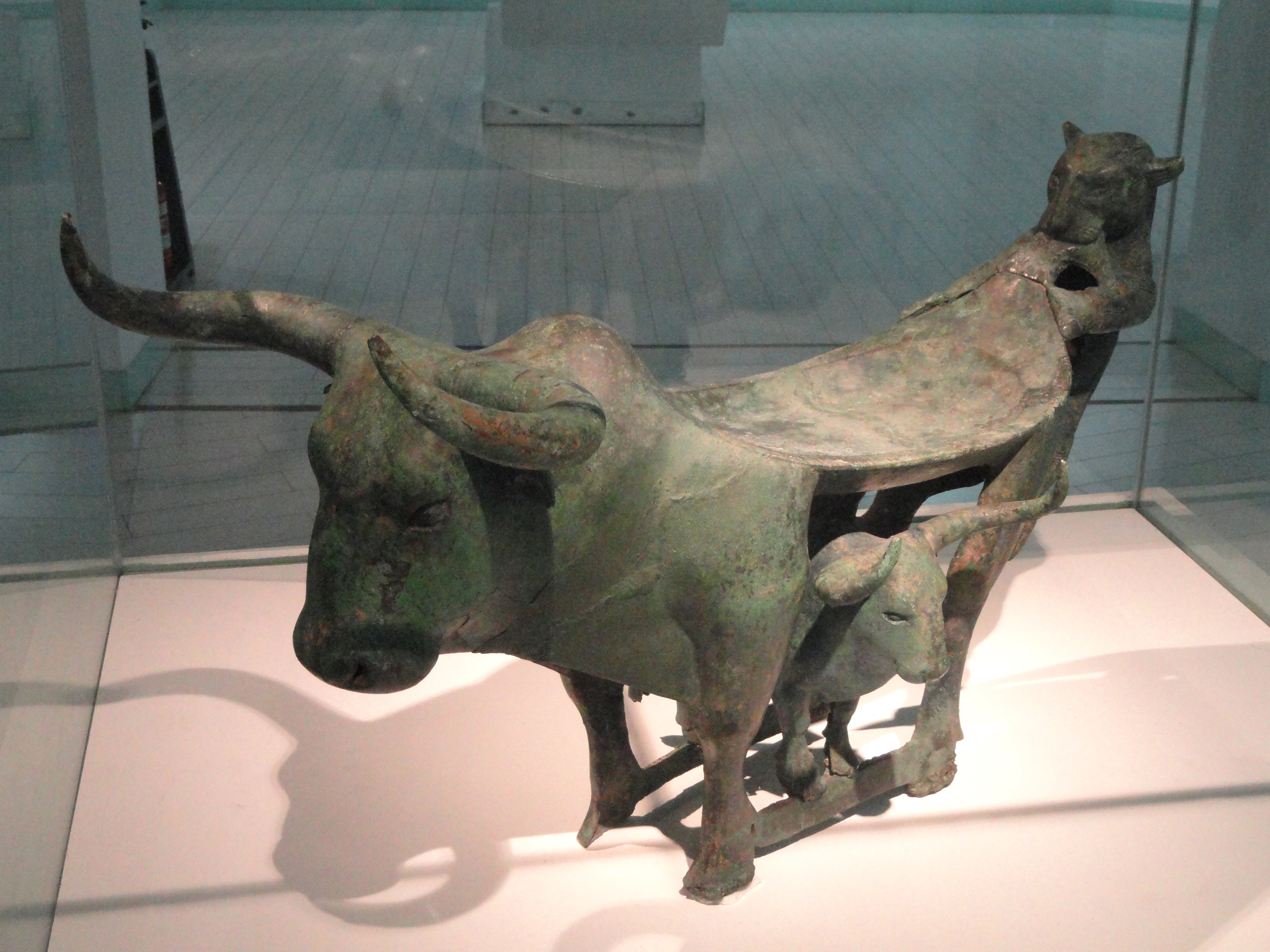 Exhibit in the Yunnan Provincial Museum, Kunming, Yunnan, China.